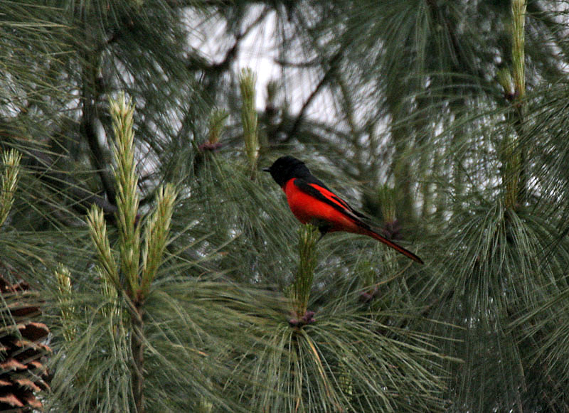 Long-tailed Minivet Pericrocotus ethologus at 9000 ft. in Kullu District of Himachal Pradesh, India.